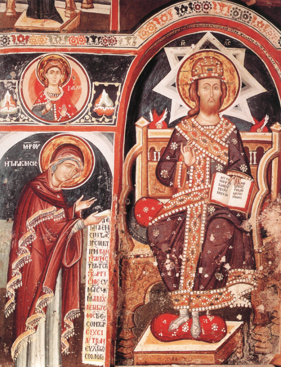 Megala Meteora